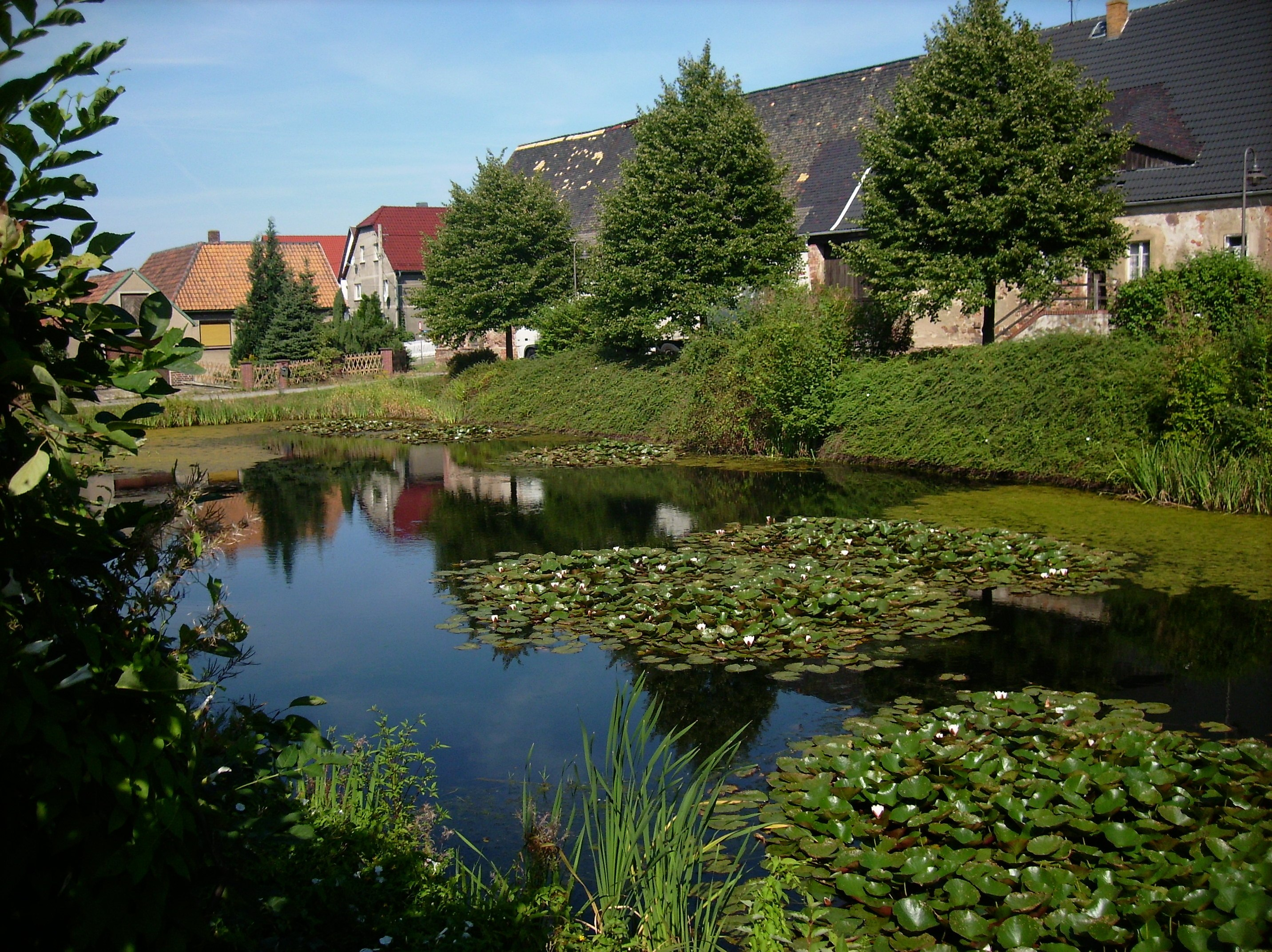 Pond in Ebersbach (Bad Lausick, Leipzig district, Saxony)